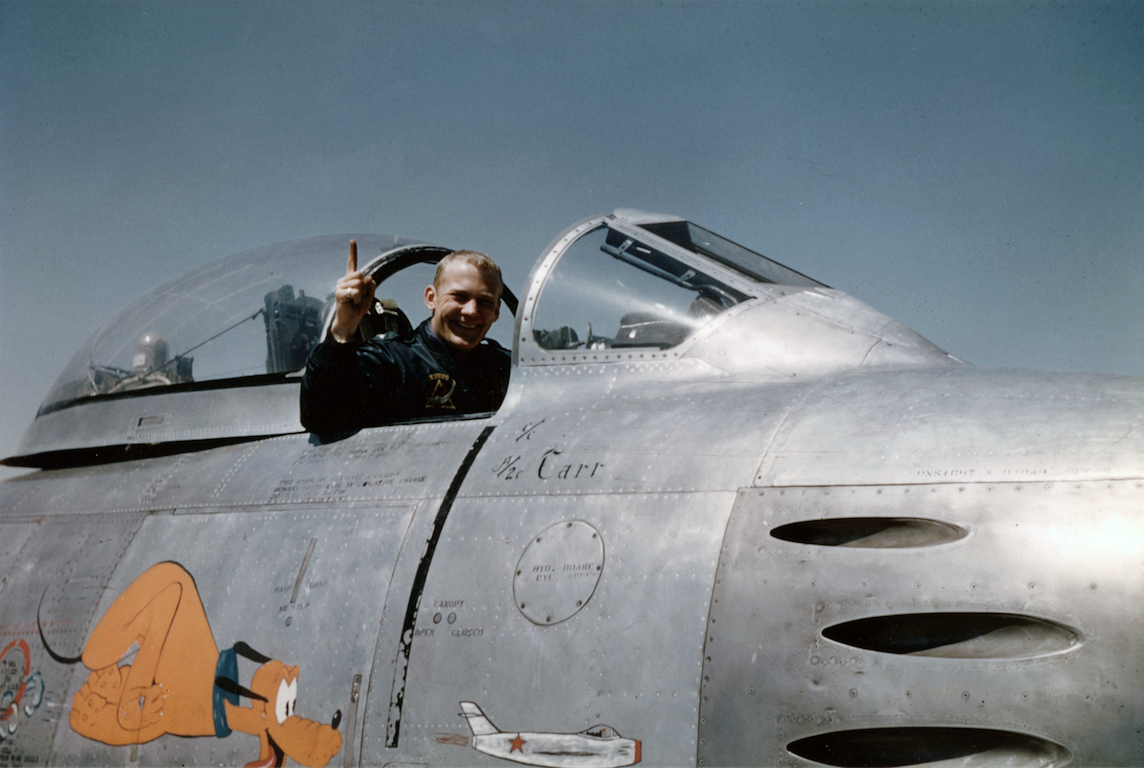 Lieutenant Buzz Aldrin, 51st Fighter Interceptor Wing, in the cockpit of a North American Aviation F-86E Sabre after shooting down an enemy Mikoyan-Gurevich MiG 15 fighter during the Korean War.